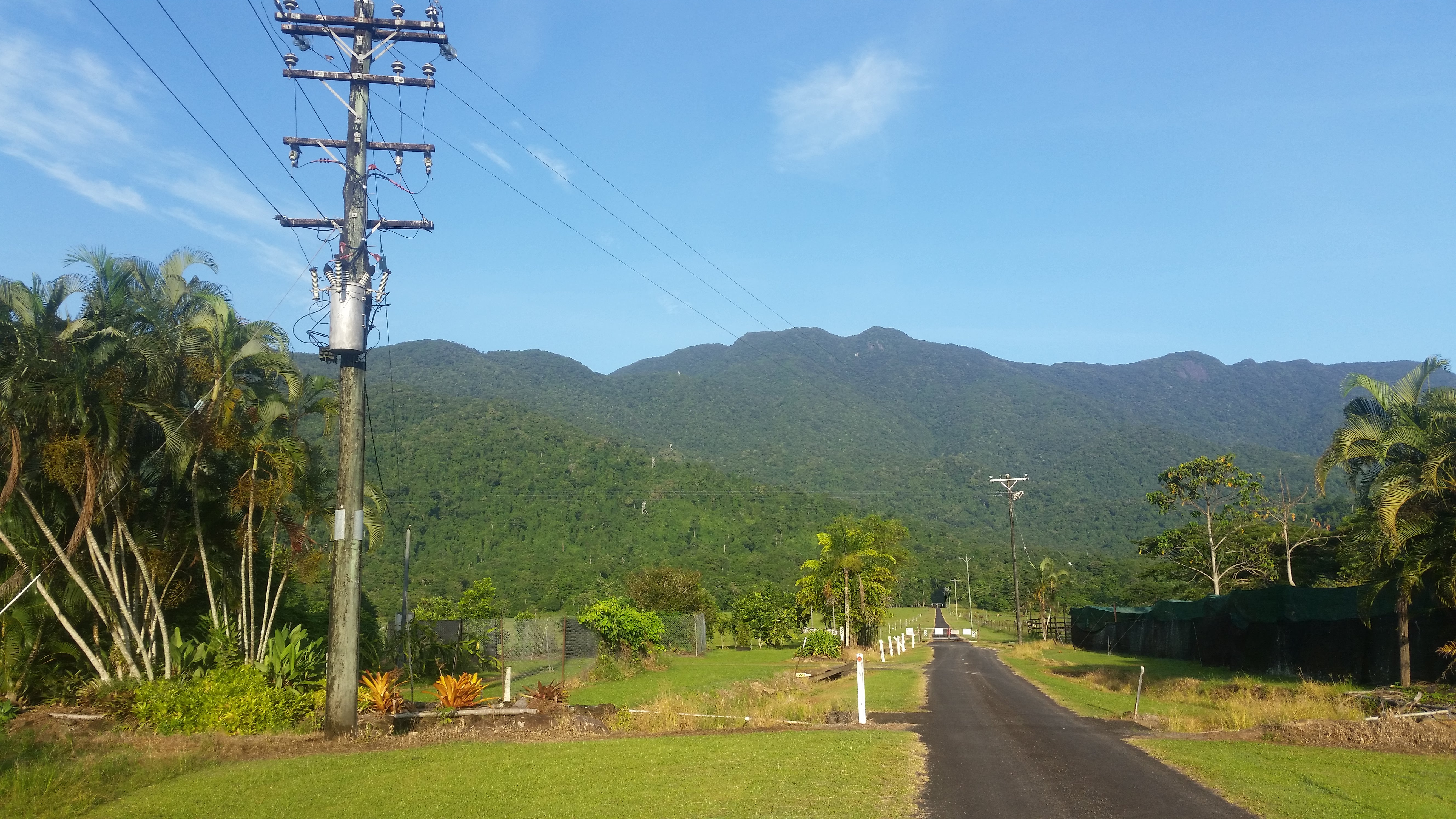 A closer photo of Mount Bellenden Ker range centered on the summit and the aerial cableway taken from the east at the eastern most publicly accessible part of Telecom Rd. The foreground is dominated by the landscape of a residence.